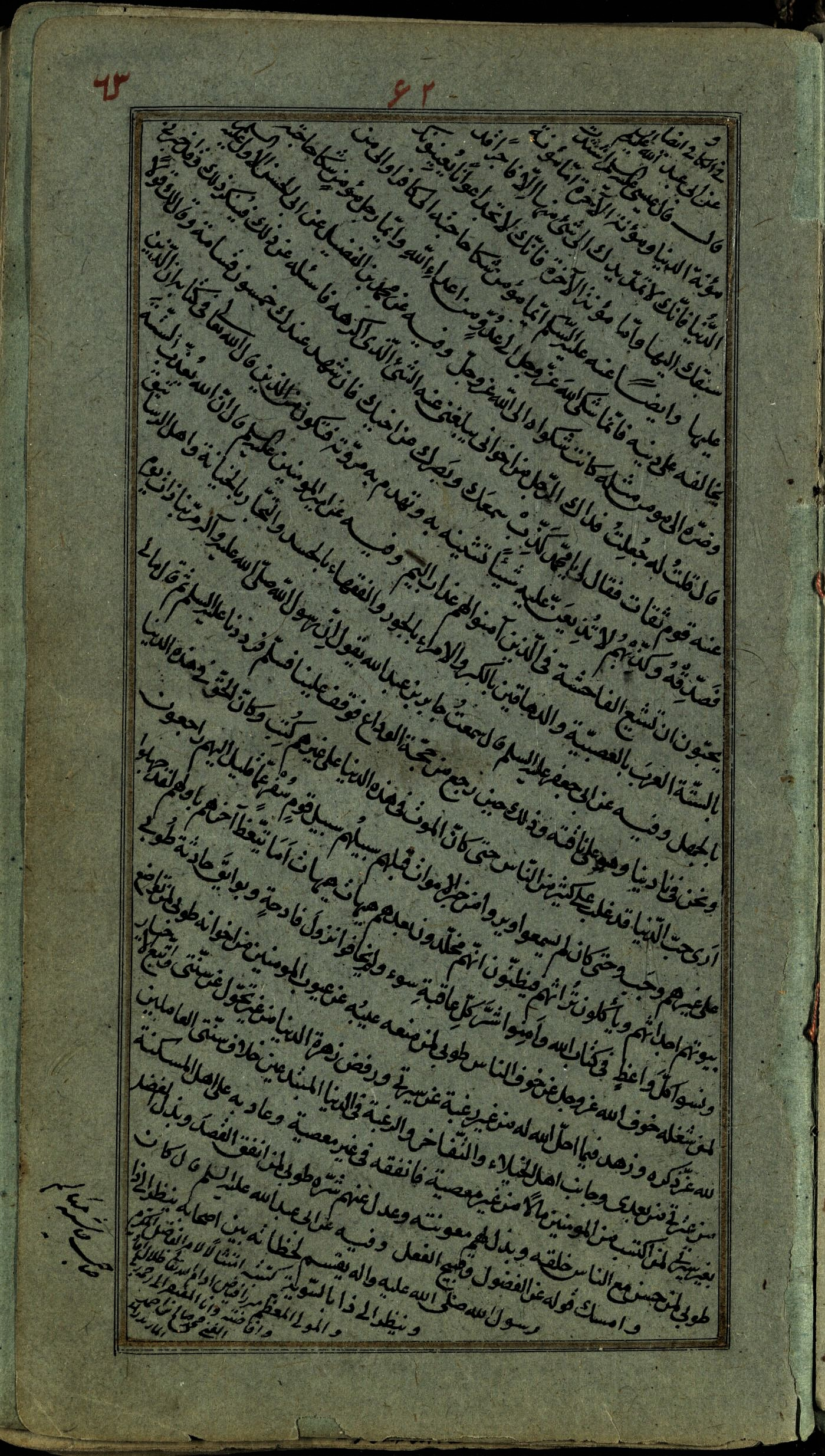 Author: Mohammad Salih al-Mazandarani A Note by Mohammad Salih al-Mazandarani in literary collection compiled by Mirza Muhammad-Fayaz Sabzevari Central Library and Documentation Center of the University of Tehran Reference Number: 9707, page: 62 (front)